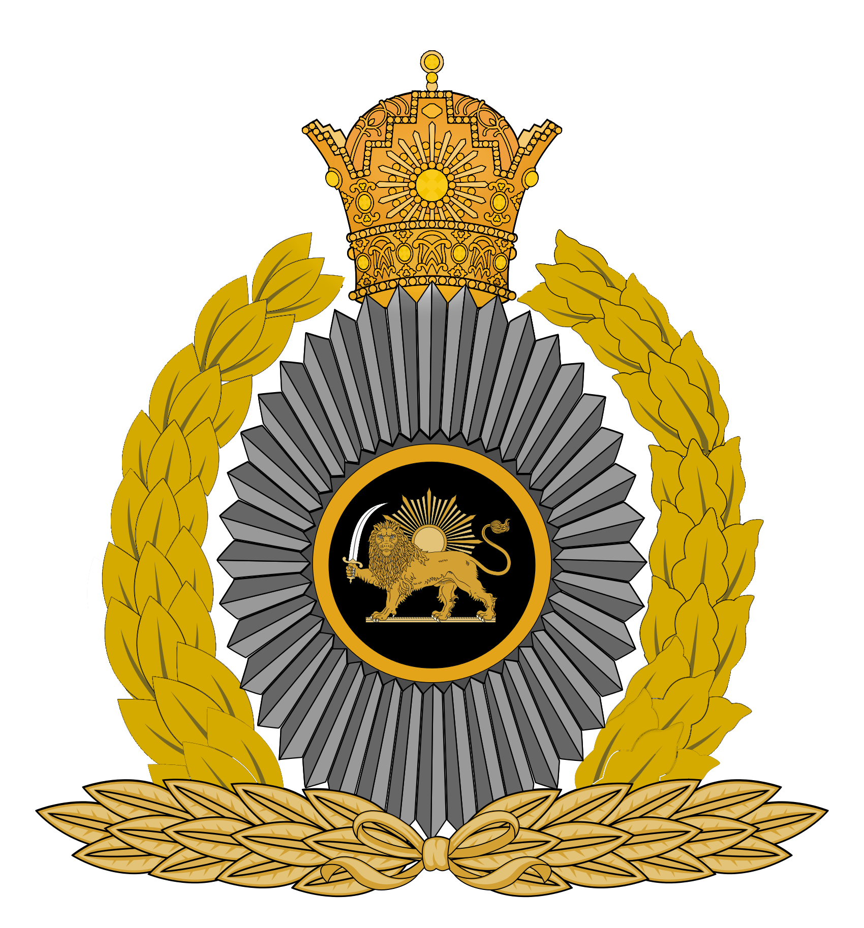 Ground Force Imperial Army of Iran sign before 1979 revolution